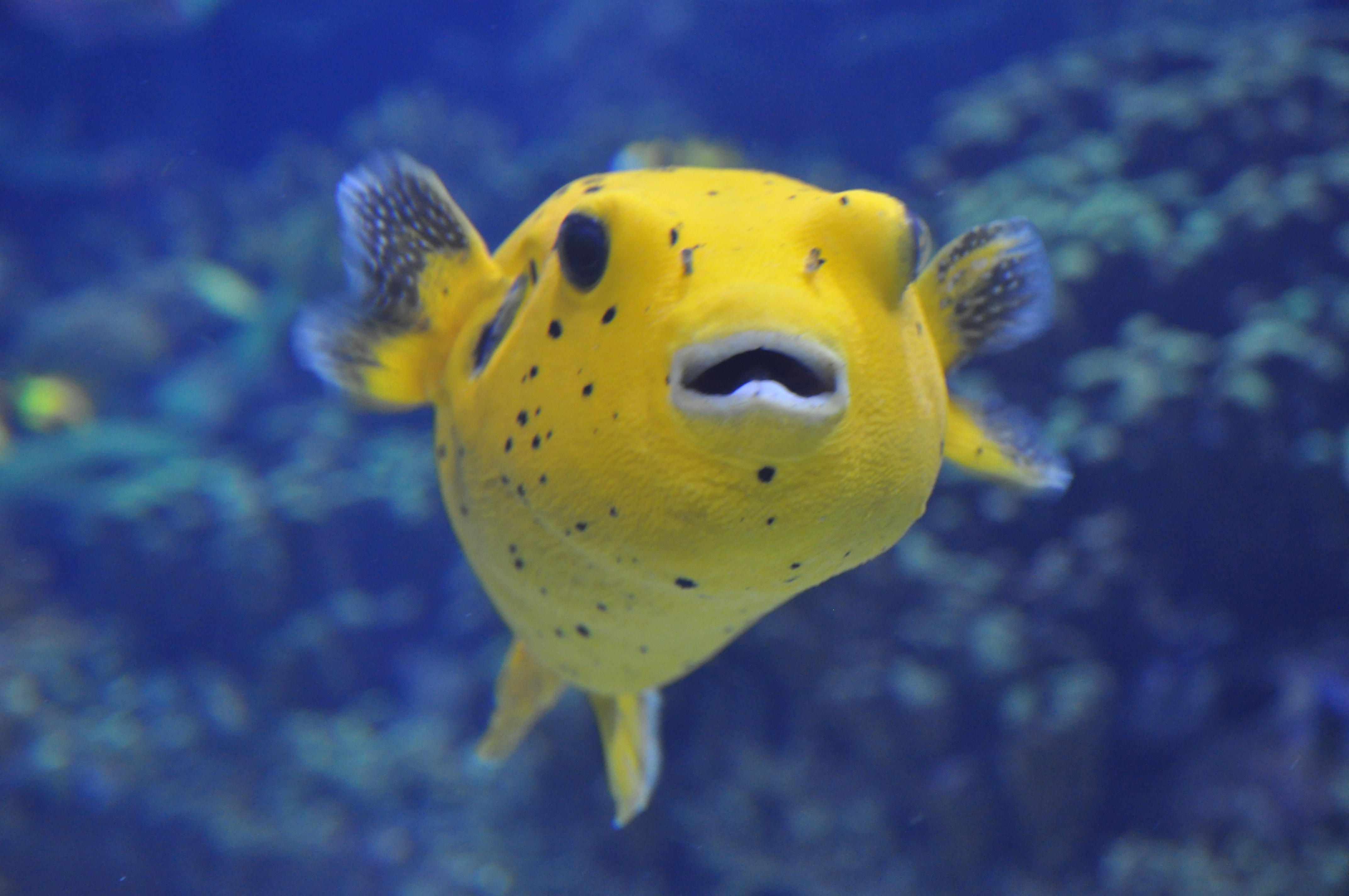 Spotted Pufferfish (Arothron meleagris).